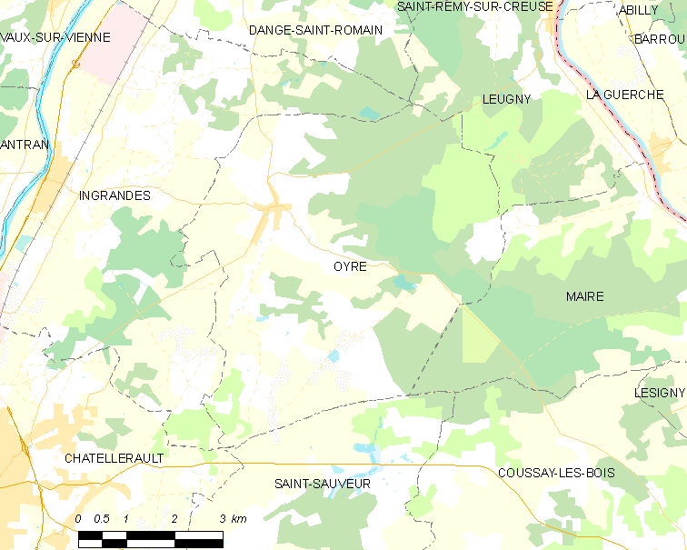 Map of French municipality Oyré